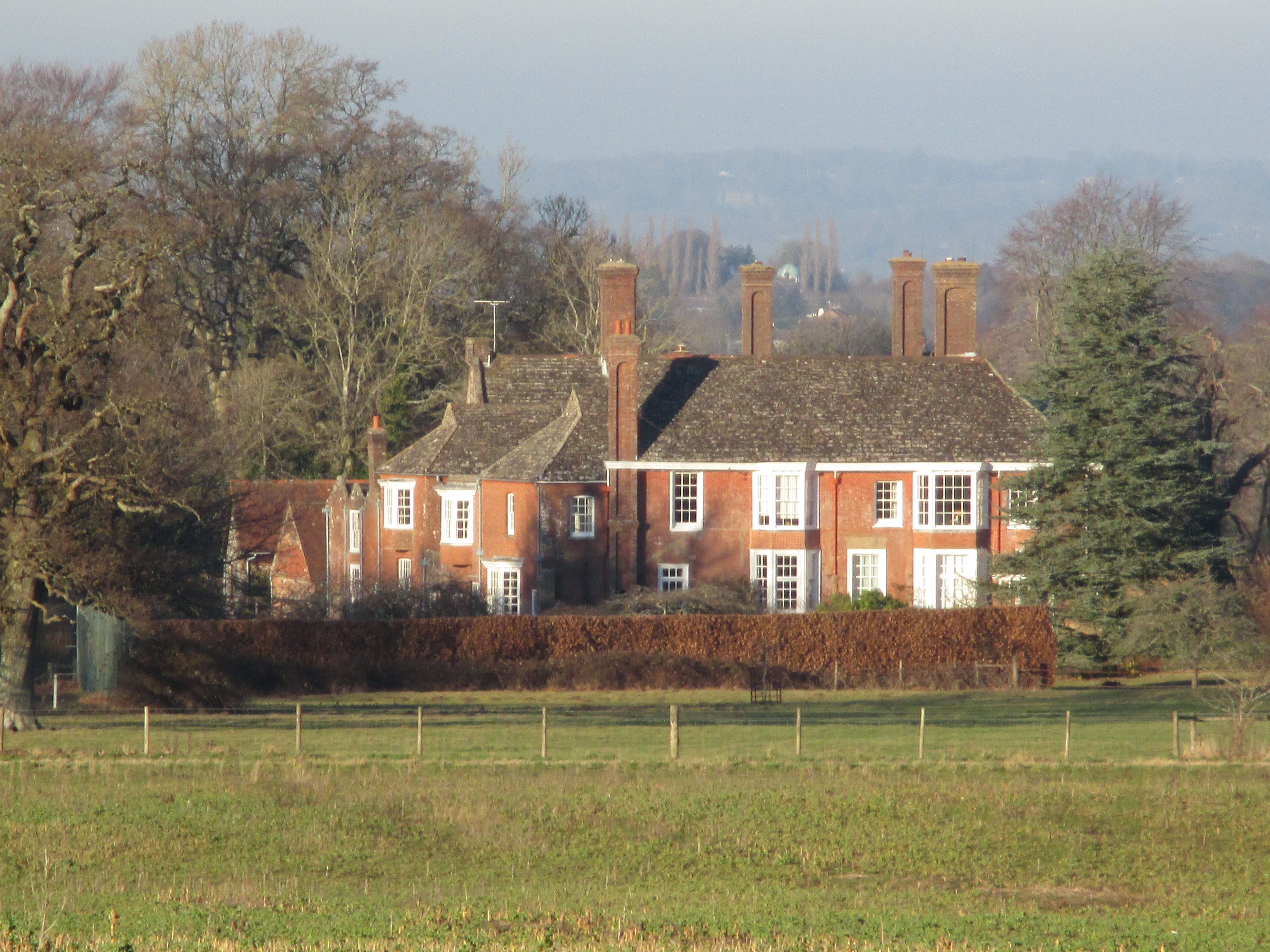 Newtimber Place, Newtimber, West Sussex seen from 500 metres to the south.